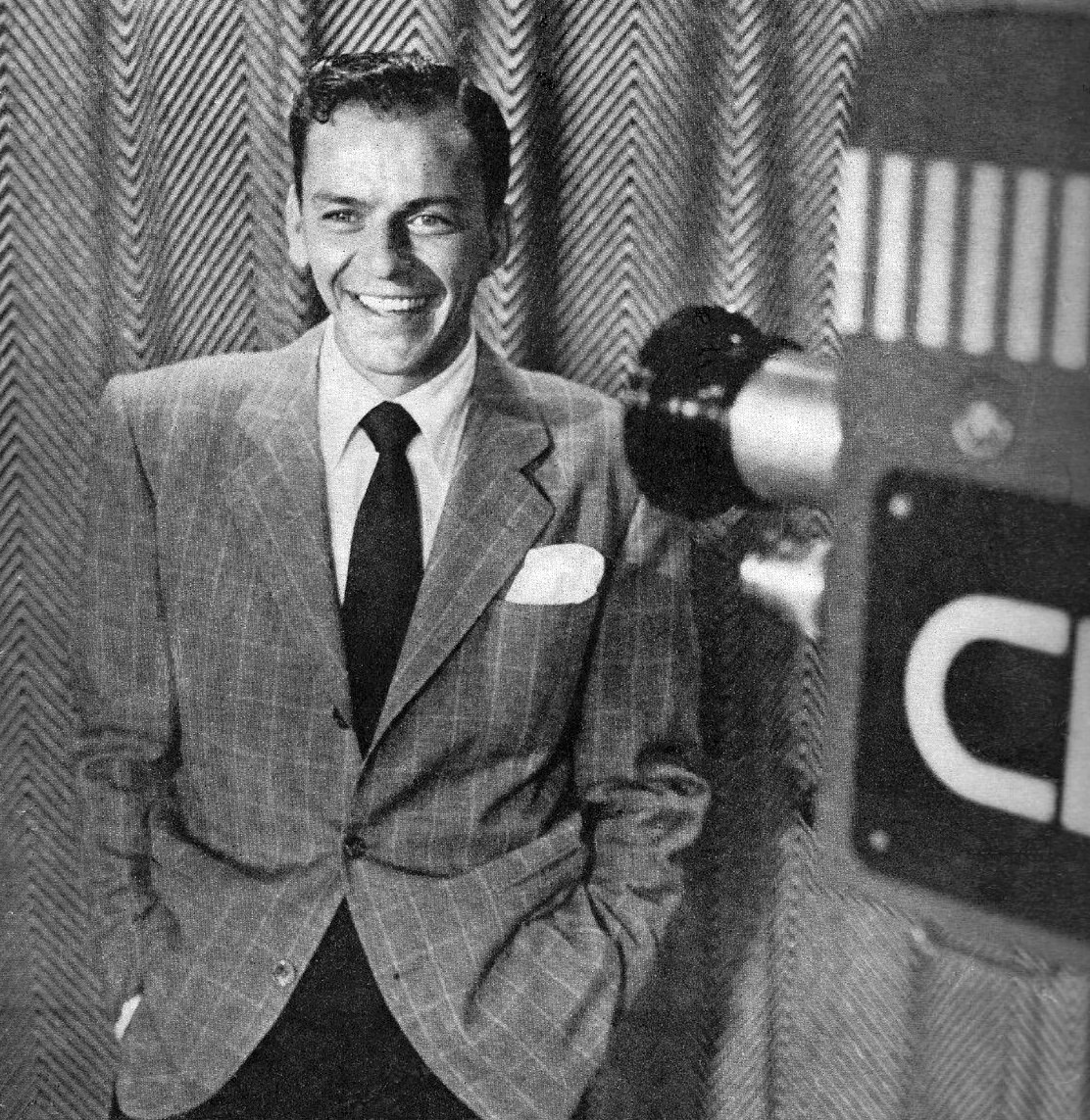 Photo of Frank Sinatra on the set of his television program The Frank Sinatra Show. The photo was on the cover of Metronome magazine in November 1950.